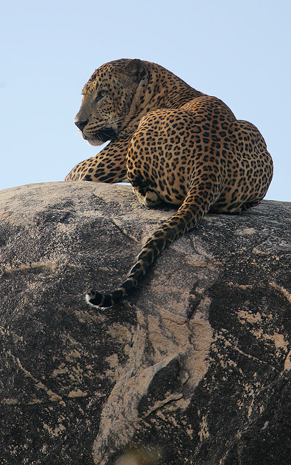 An adult male perched on the top of the appropriately-named Leopard Rock.